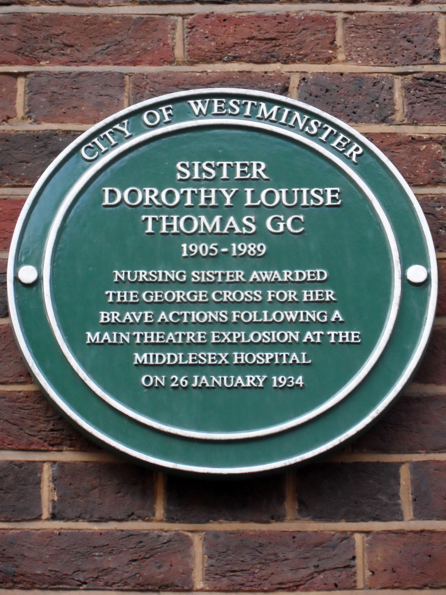 Dorothy Louise Thomas Sister Dorothy Louise Thomas GC 1905-1989 nursing sister awarded the George Cross for her brave actions following a main theatre explosion at the Middlesex Hospital on 26 January 1934 - on John Astor House, Middlesex Hospital, 3 Foley Street, W1